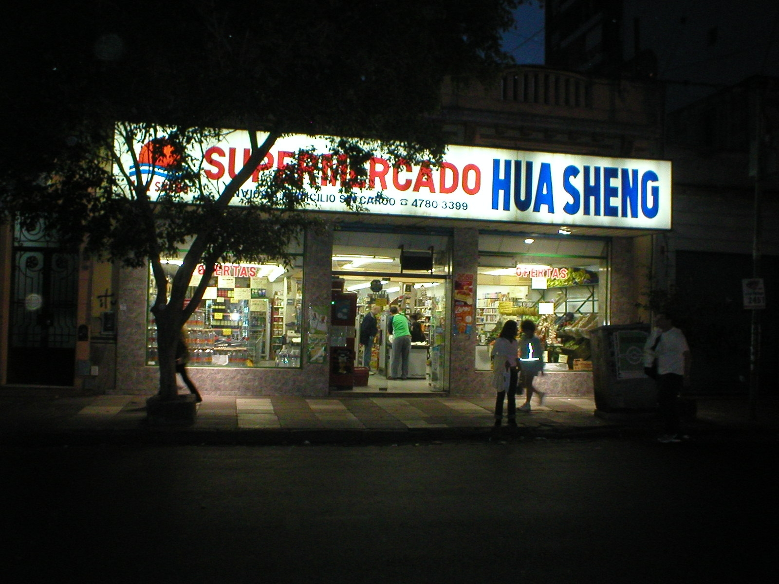 Supermercado Hua Sheng, an Asian supermarketI took this while living in Buenos Aires. It's open to all. Svenska84 23:39, 17 May 2005 (UTC)